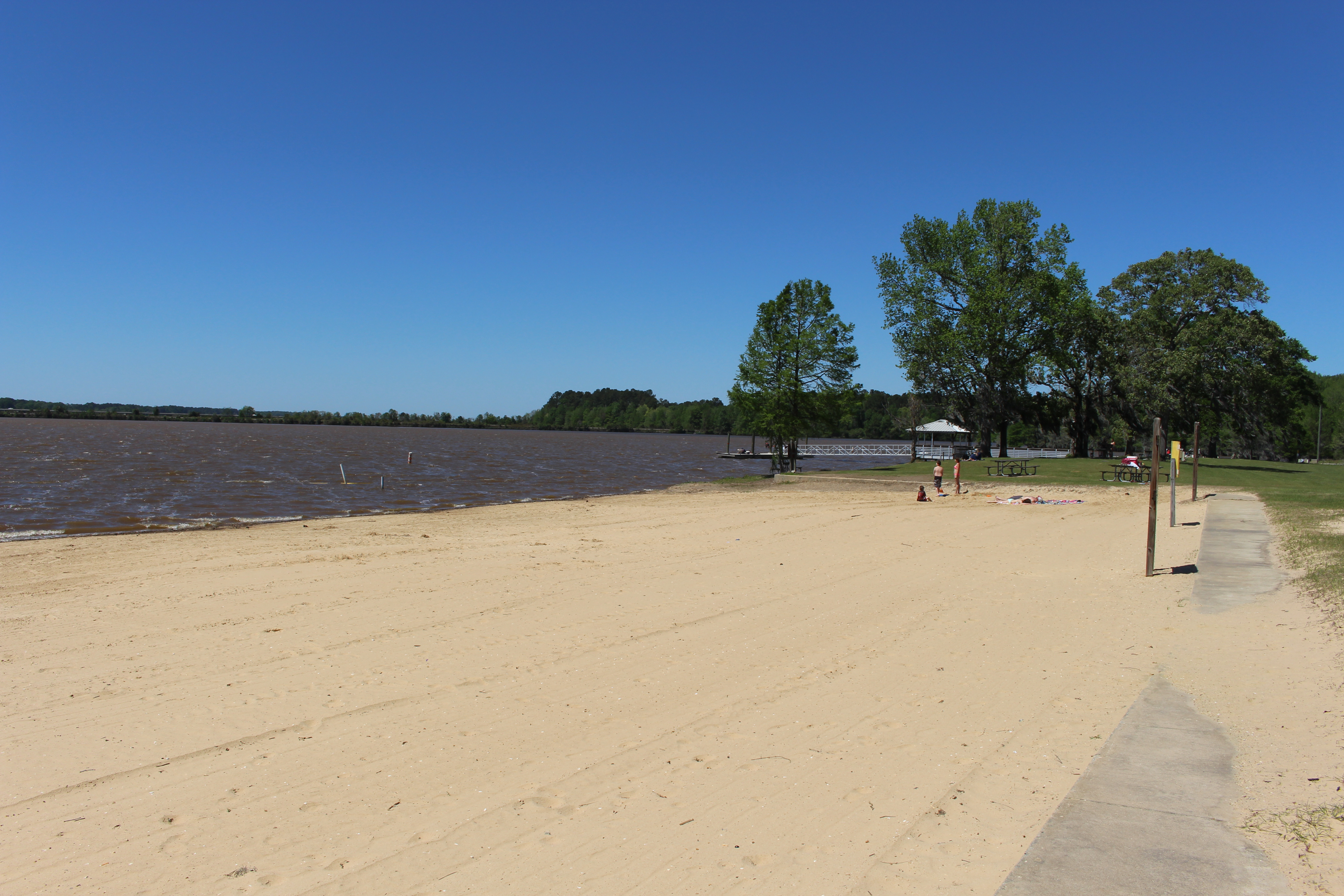 Beach on Lake Blackshear, Georgia Veterans State Park, Crisp County, Georgia